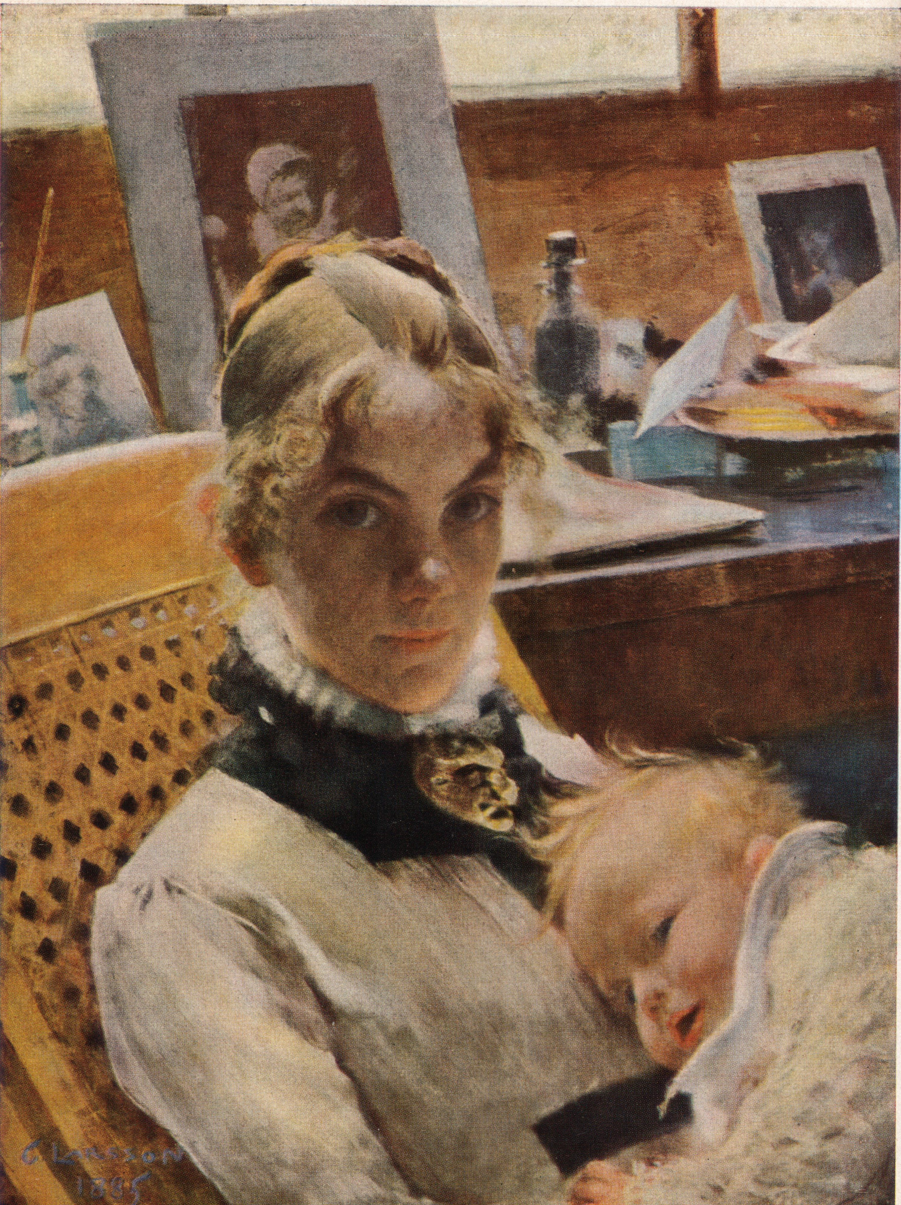 The artist's wife with daughter Suzanne